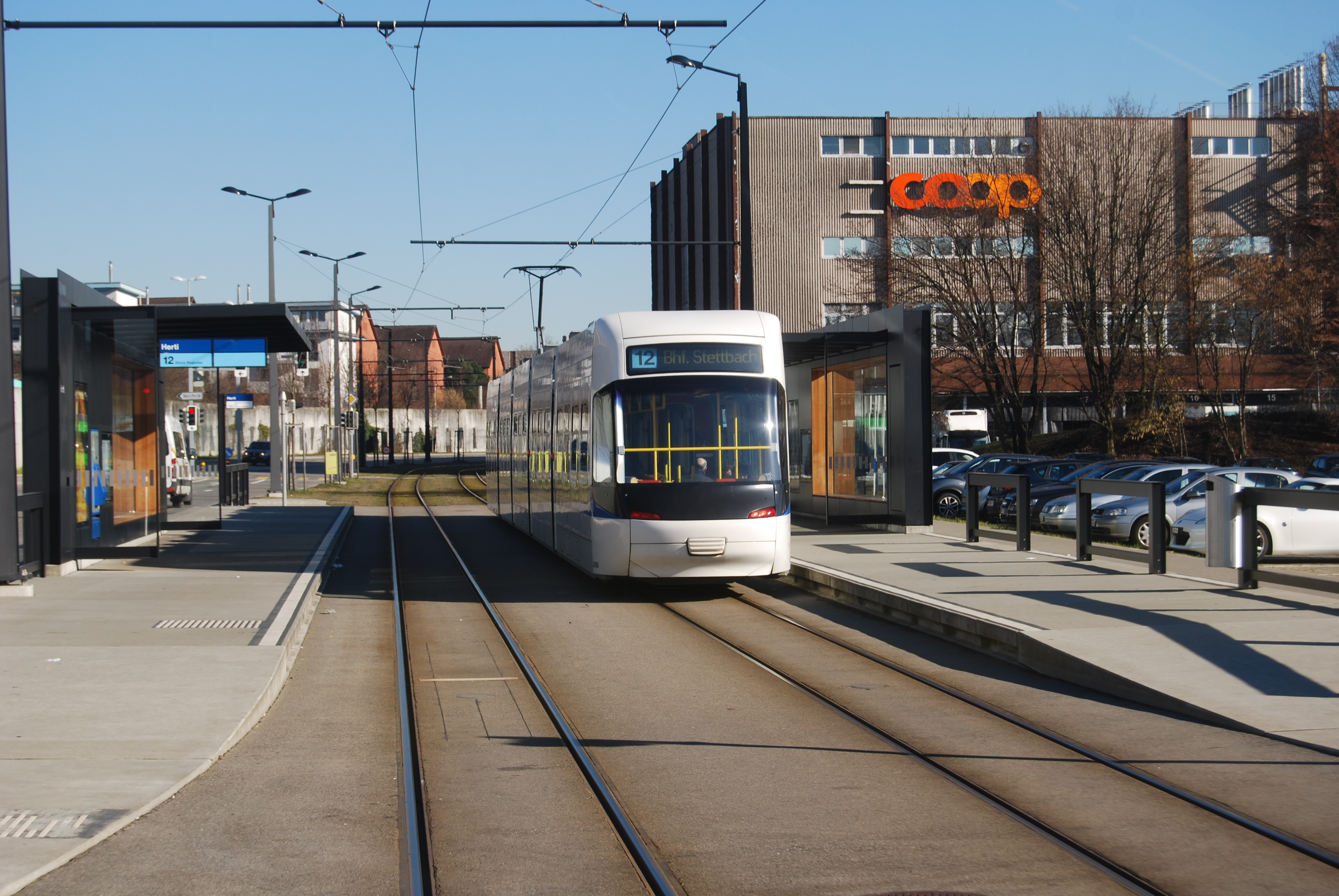 Glattalbahn, tram stop Herti at Wallisellen, canton of Zürich, Switzerland